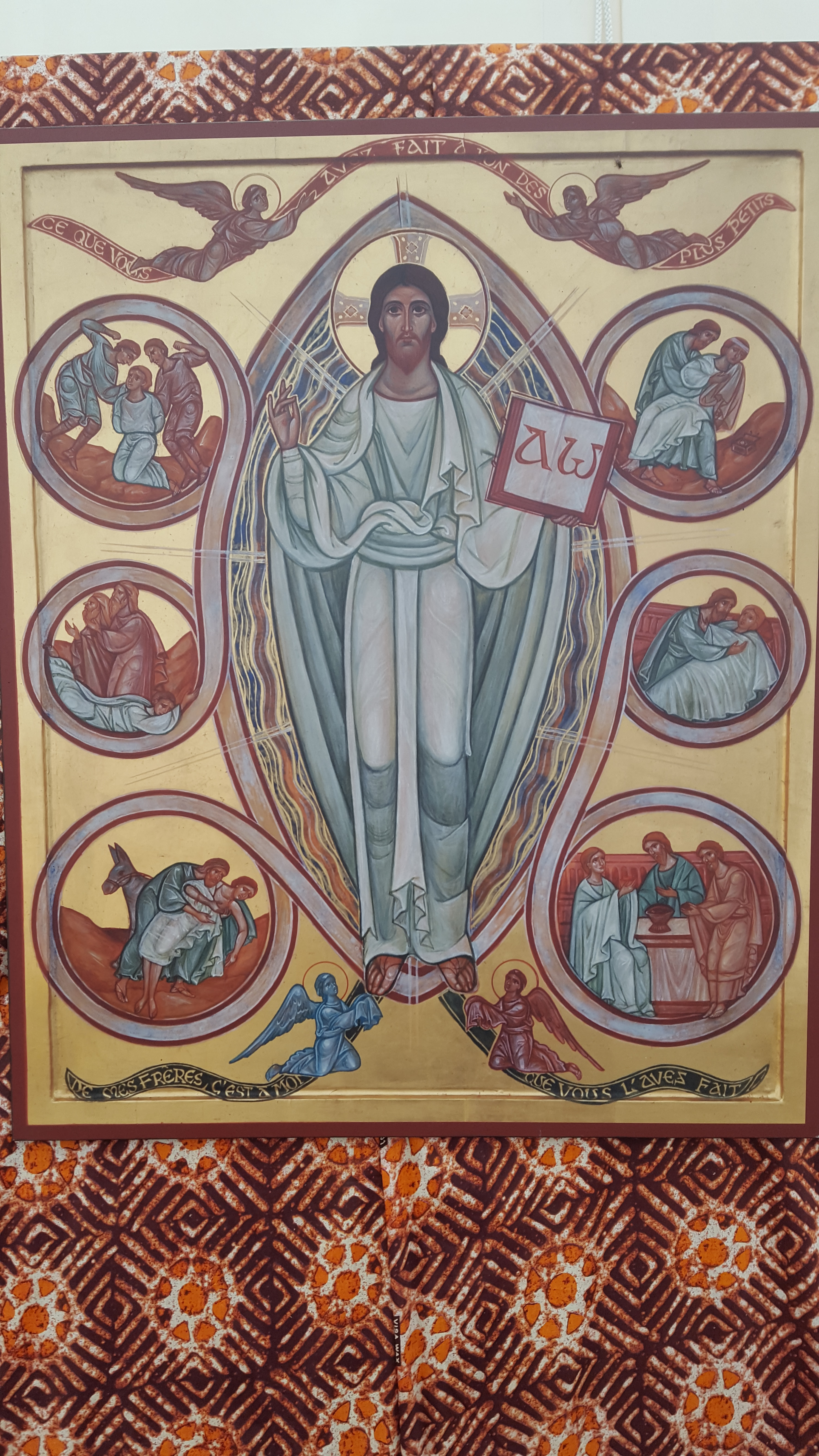 Im Jahr der Barmherzigkeit stand die Ikone der Barmherzigkeit im Mittelpunkt der Bibeleinführungen